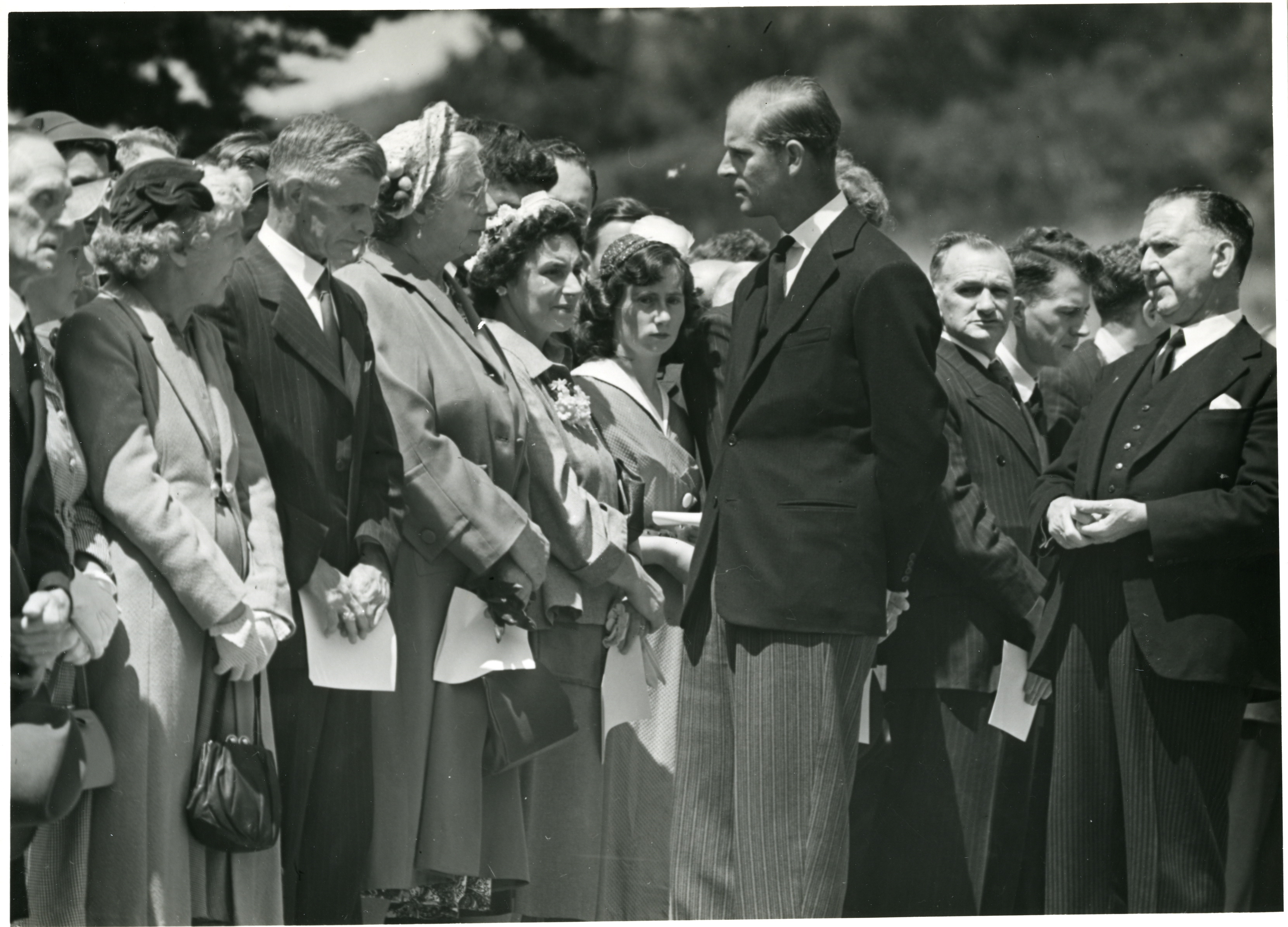 The Duke of Edinburgh attending the Tangiwai memorial for 21 victims at Karori Cemetery, 31 December 1953 Archives New Zealand Reference: AAQT 6538 W3537 1 /